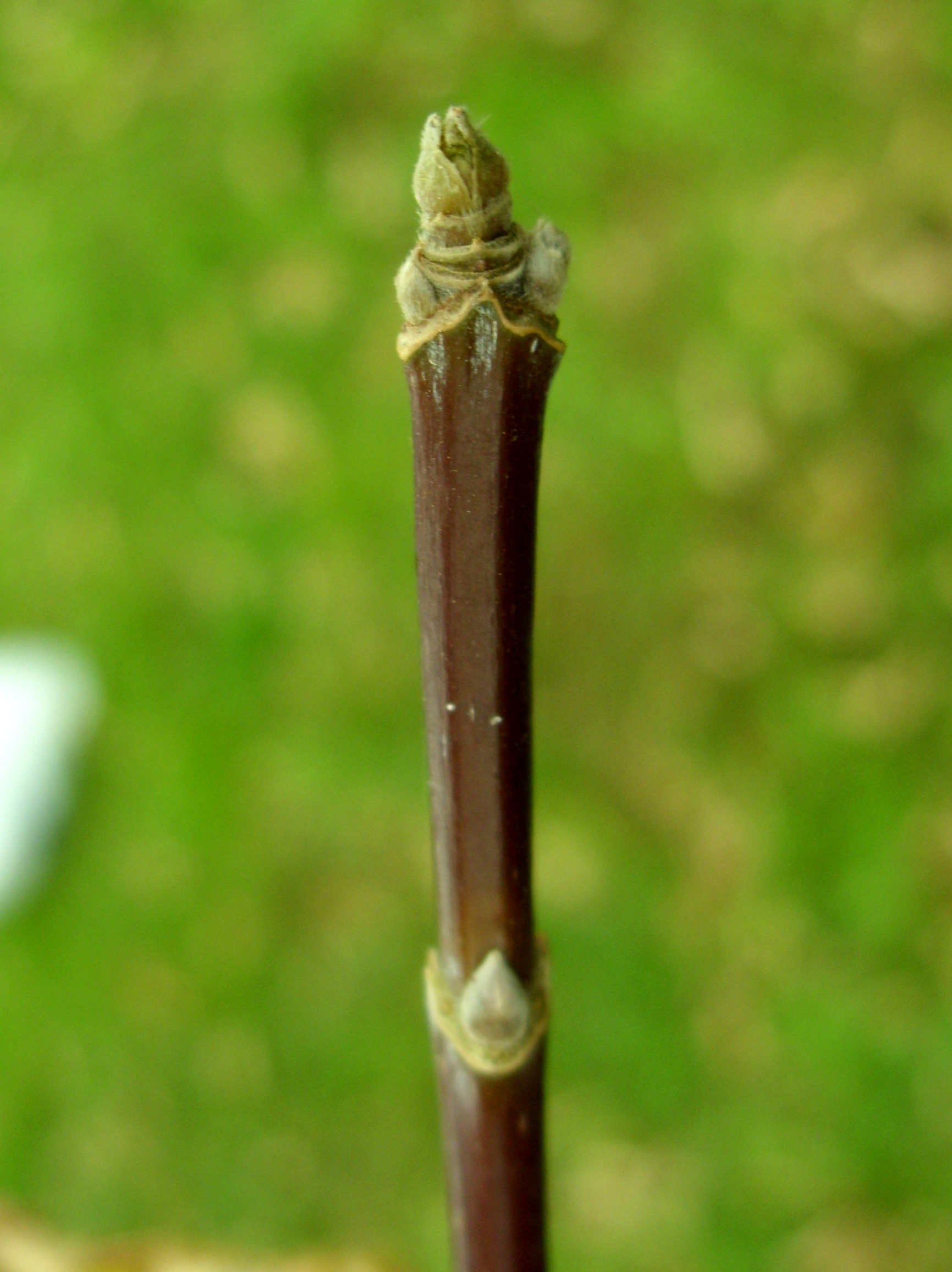 Acer negundo bud 2010. oct.